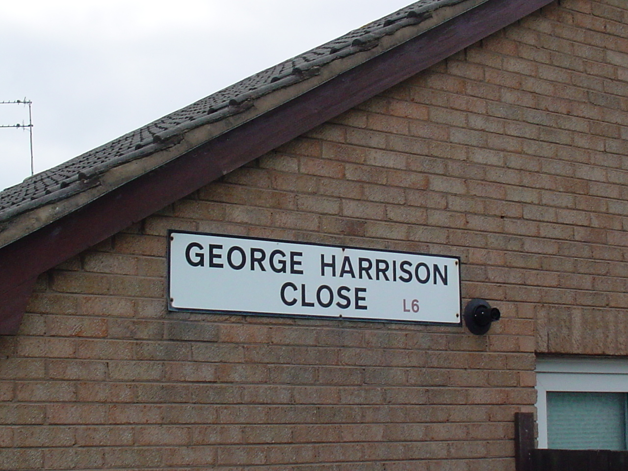 George Harrison Close street sign, Liverpool L6.